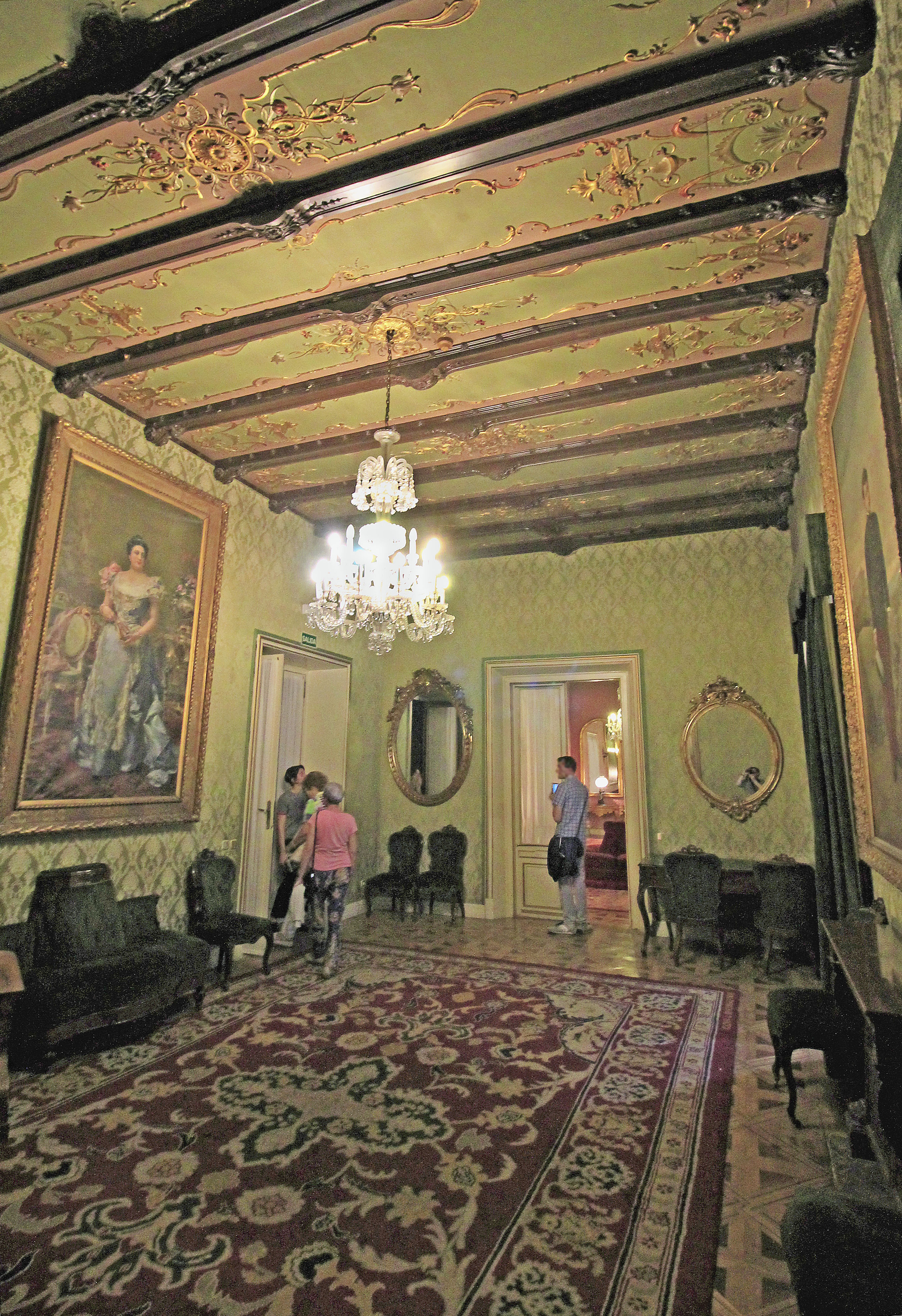 A room of the Bauer Palace (a former mansion) in Madrid (Spain). Designed by Arturo Mélida towards 1870.